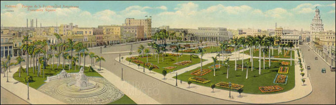 Campo de Marte, Havana. Postcard.